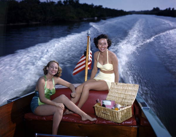 Local call number: JJS0214 Title: Lois Duncan Steinmetz (left) and Polly Gaines in a motorboat: Sarasota, Florida Date: 1950 Physical descrip: 1 transparency - col. - 4 x 5 in. Series Title: Joseph Janney Steinmetz Collection Repository: State Library and Archives of Florida, 500 S. Bronough St., Tallahassee, FL 32399-0250 USA. Contact: 850.245.6700. Persistent URL